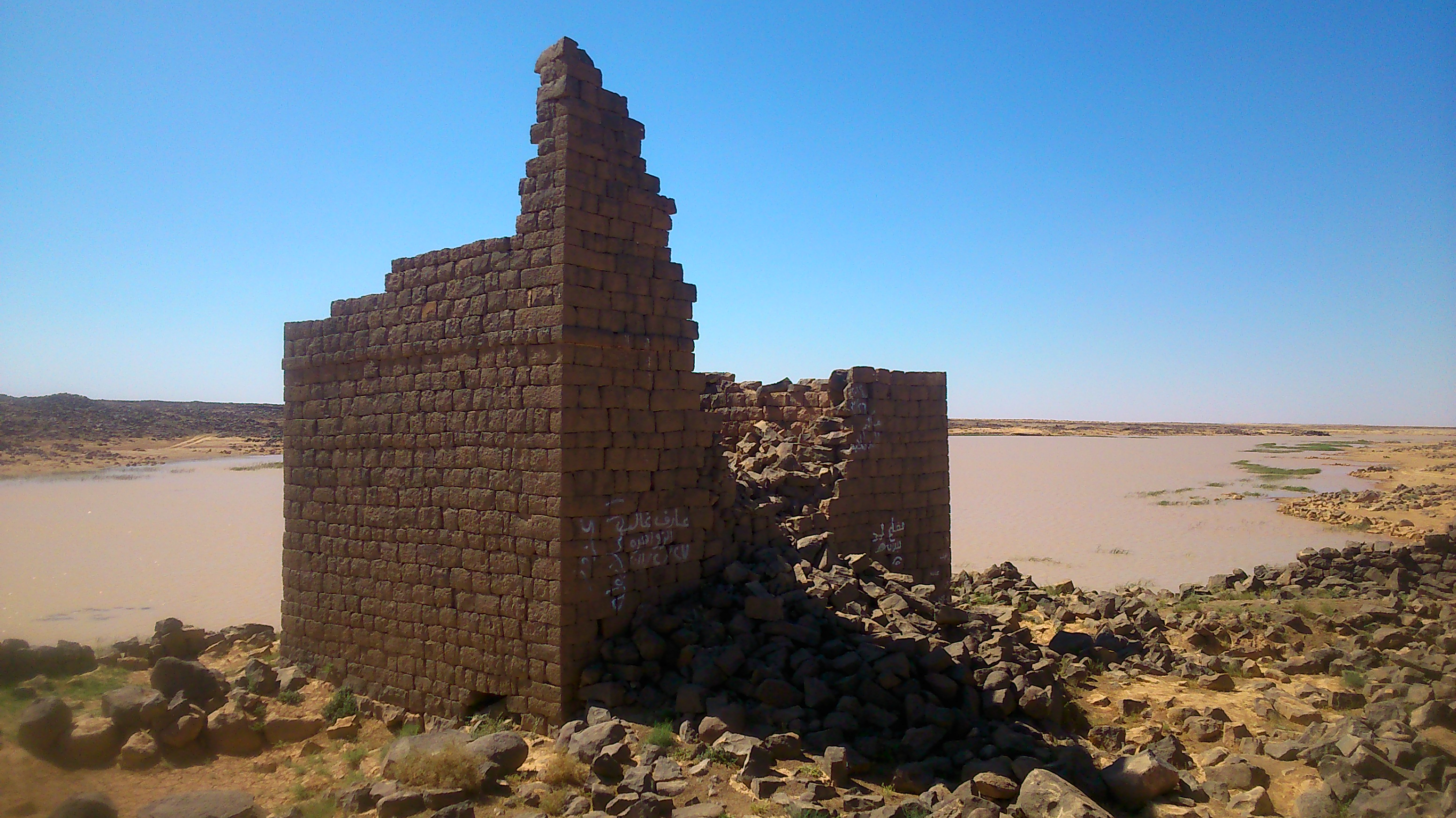 Exterior of the "keep" at Qasr Burqu in eastern Jordan, overlooking Burqu lake